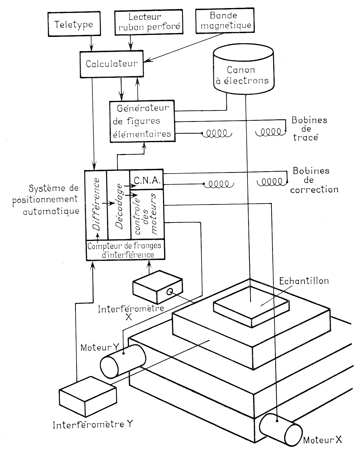 "Masqueur électronique", developped nearby 1970 by Jacques Trotel, Thomson-CSF. It was the first e-beam lithography instrument equiped with a laser interferometry.